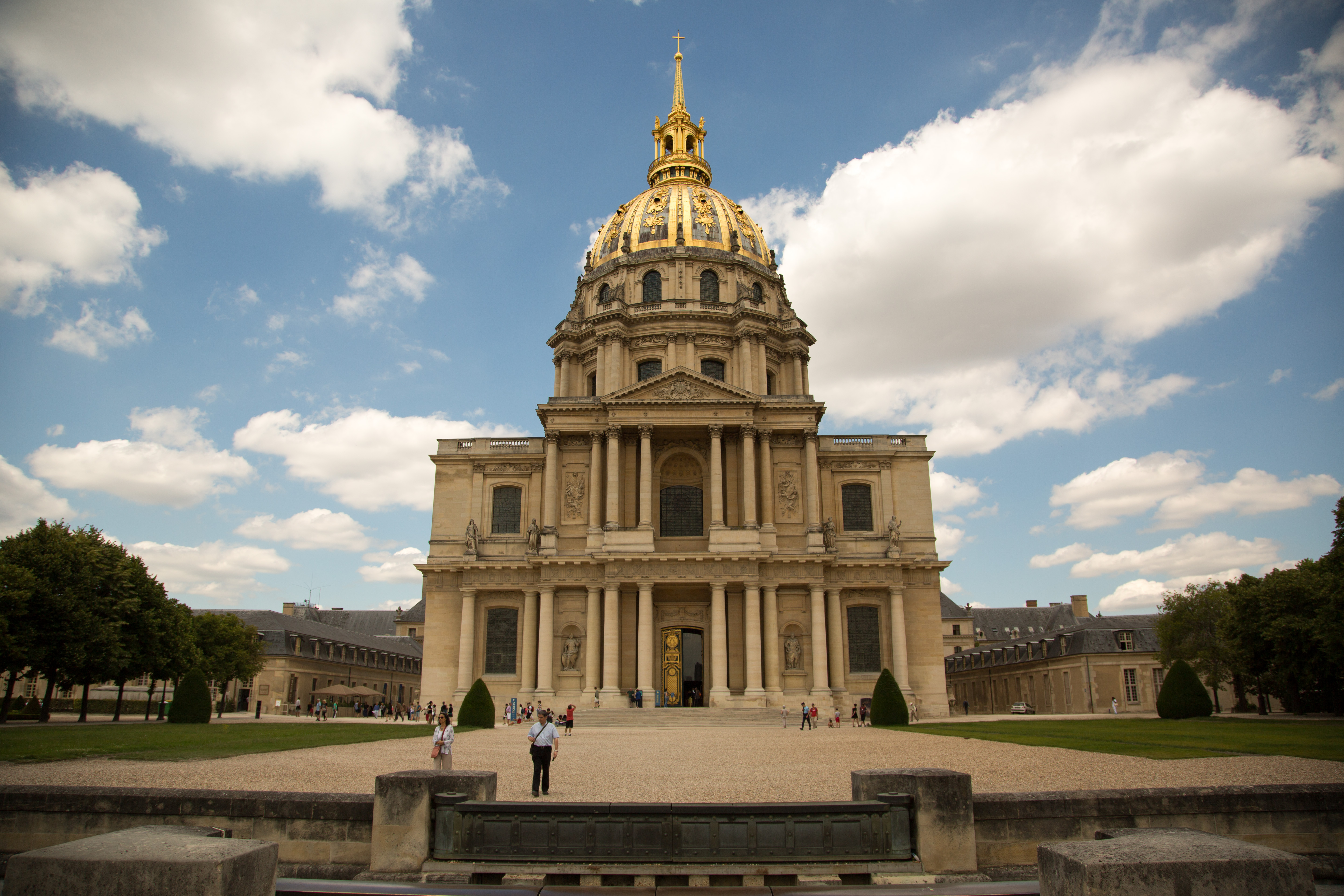 L'Hôtel national des Invalides